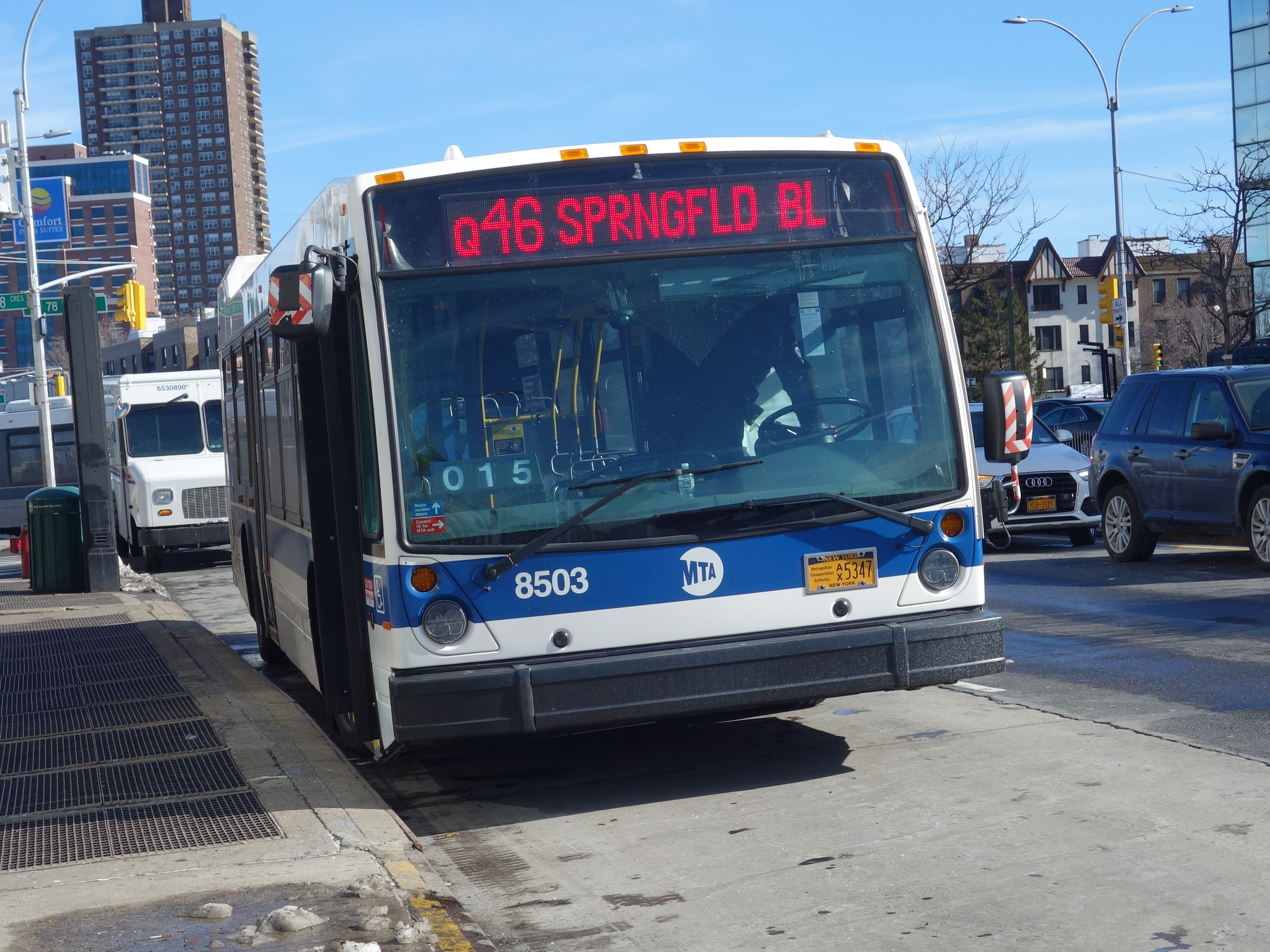 A Springfield Boulevard-bound Q46 local bus about to enter service at Queens Boulevard and 78th Avenue / 78th Crescent near Union Turnpike in Kew Gardens, Queens.